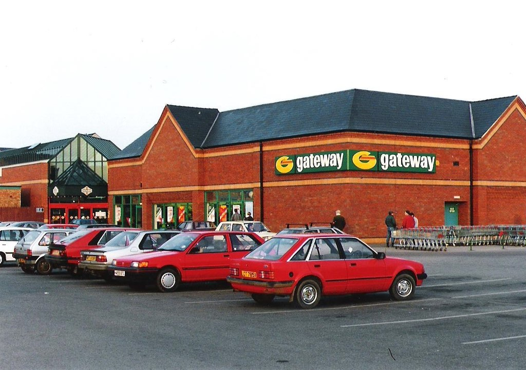 Gateway supermarket at Hildred Shopping Centre, Skegness